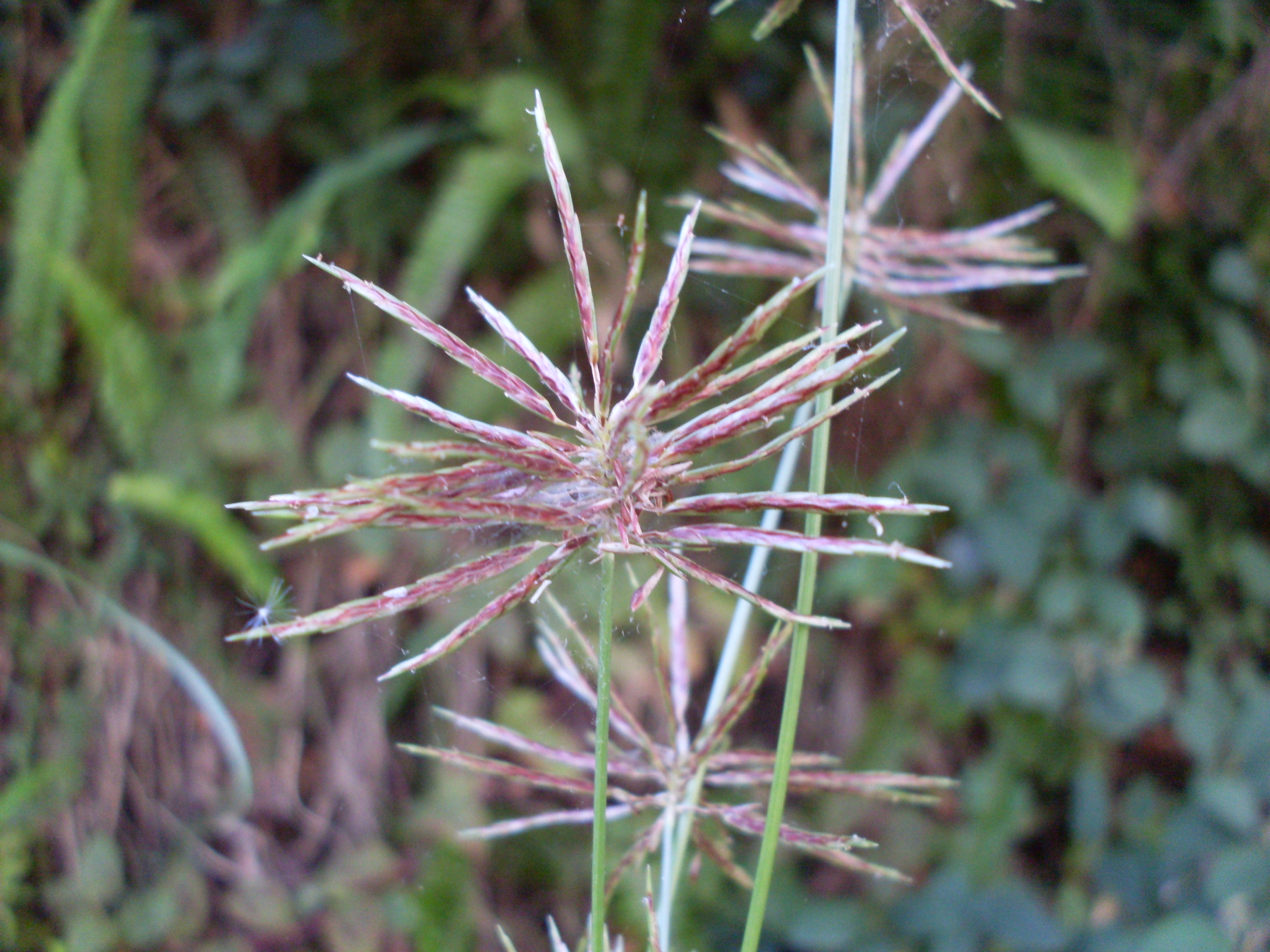 Cyperus congestus is a sedge and a weed of disturbed areas. Jannali NSW Australia, December 2008.